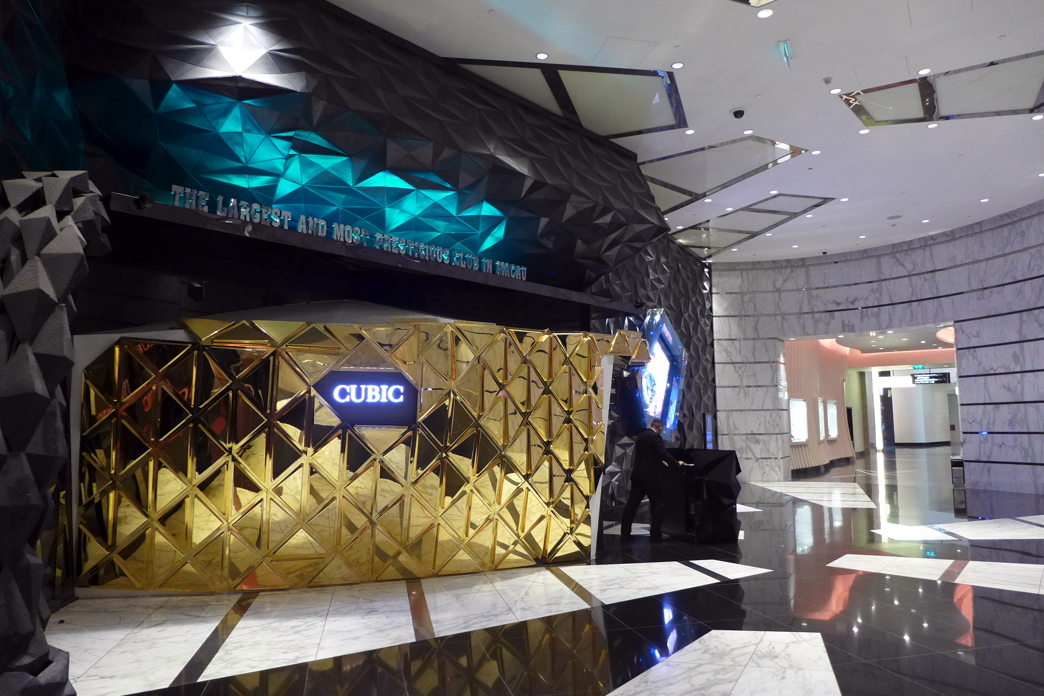 City of Dreams Macau CUBIC